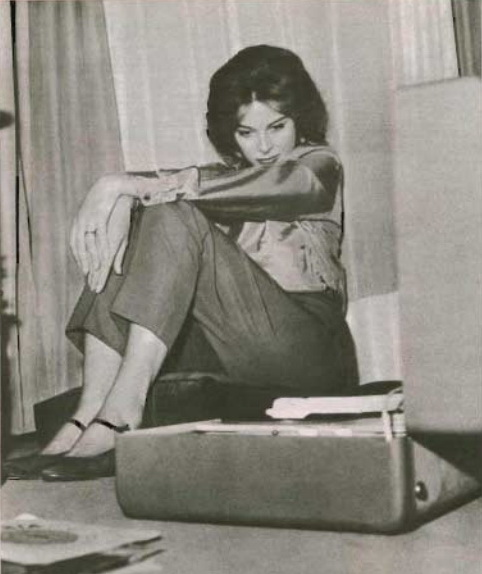 Italian actress Eleonora Rossi Drago in her house